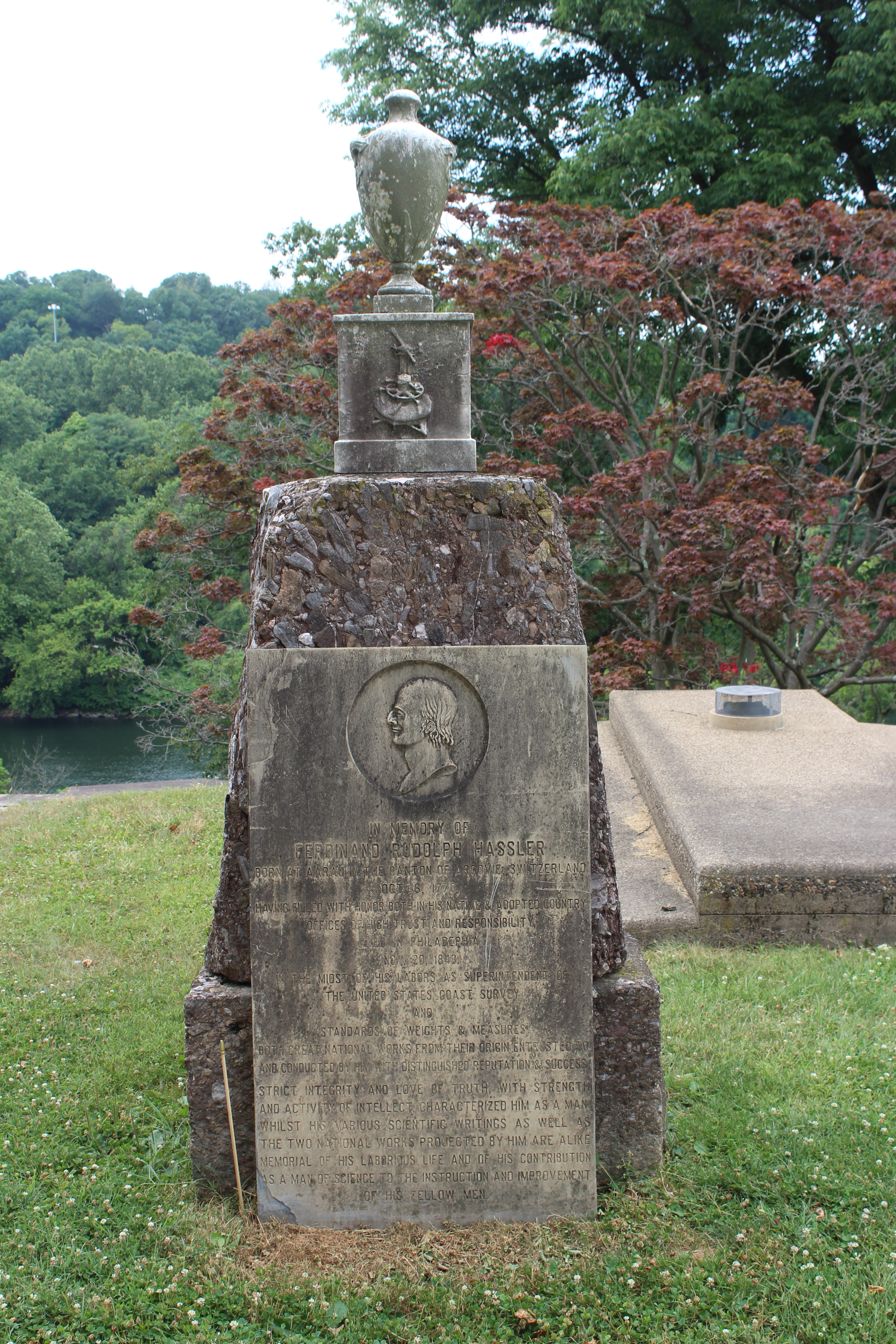 Ferdinand Rudolph Hassler memorial in Laurel Hill Cemetery. Photo taken July 2020.